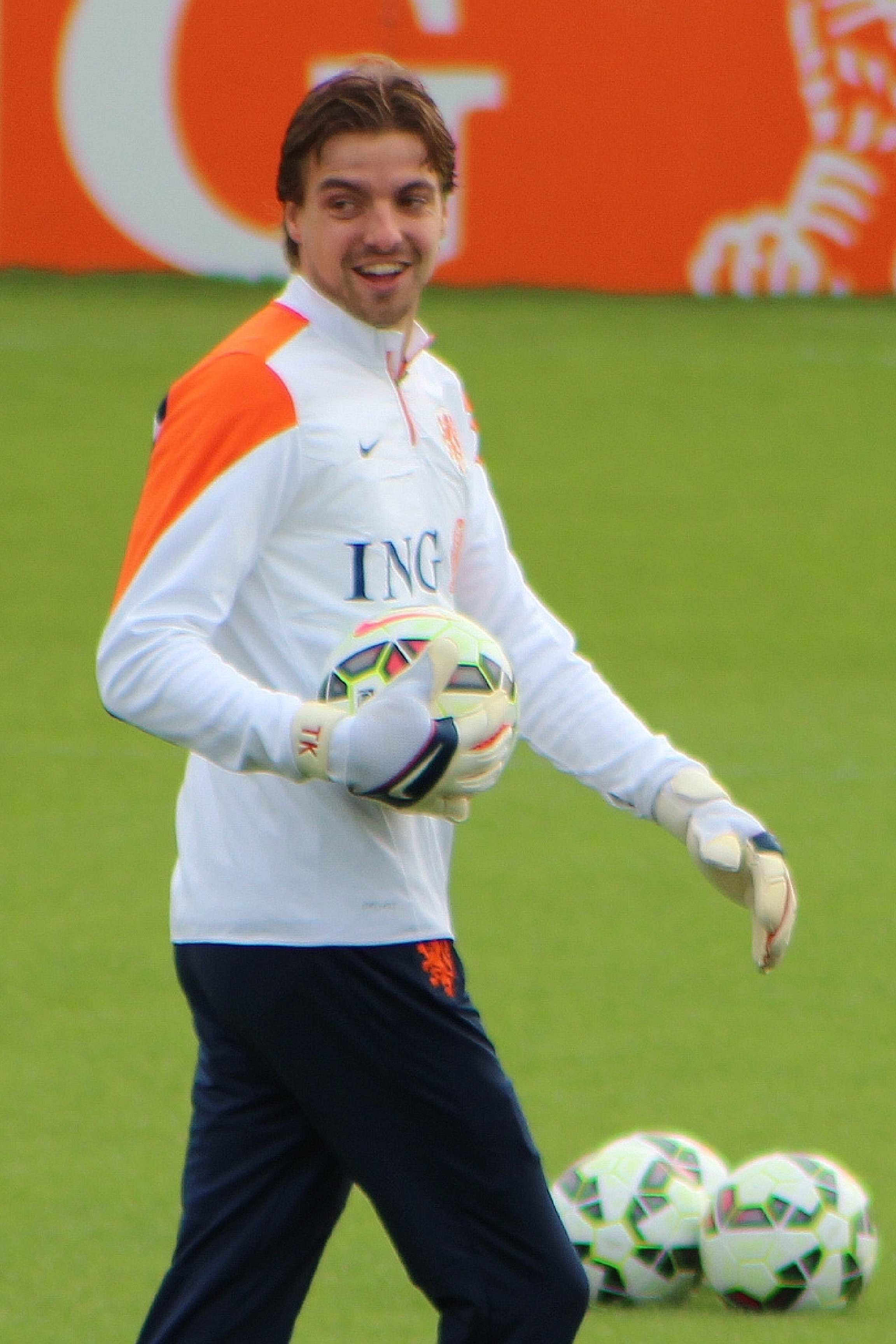 Cropped version, Tim Krul.